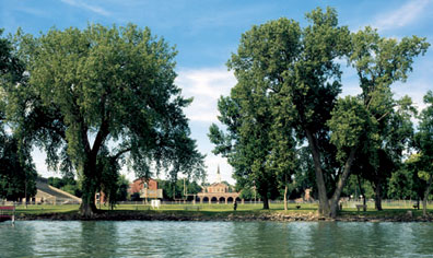 A view of the Buena Vista University campus from Storm Lake.